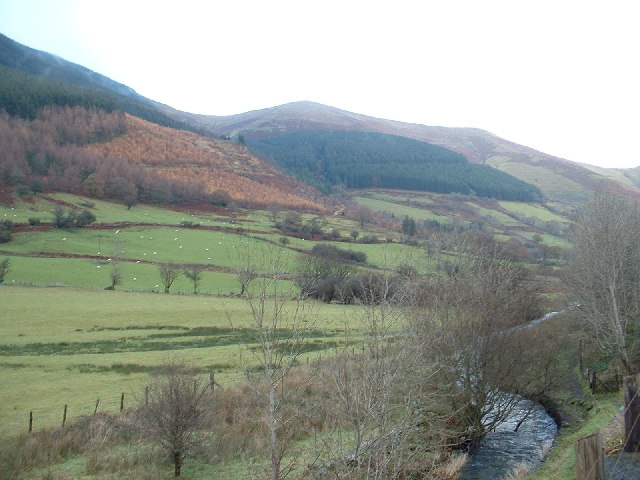 Afon Cerist. Looking east